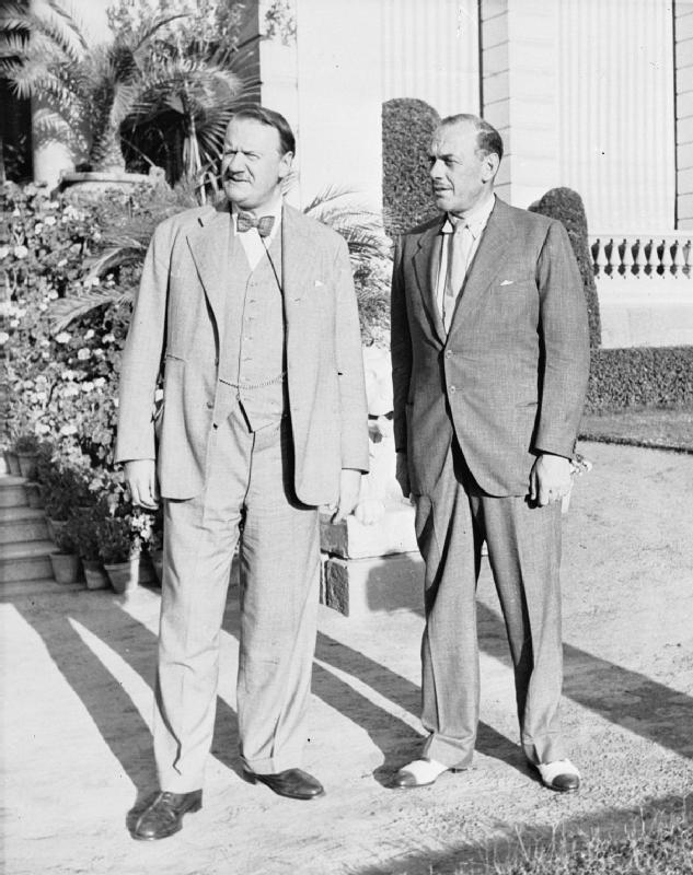 Captain Oliver Lyttelton (right), the Minister of State resident in the Middle East from June 1941 to February 1942, at the British Embassy in Cairo with Sir Miles Lampson, British Ambassador to Egypt.